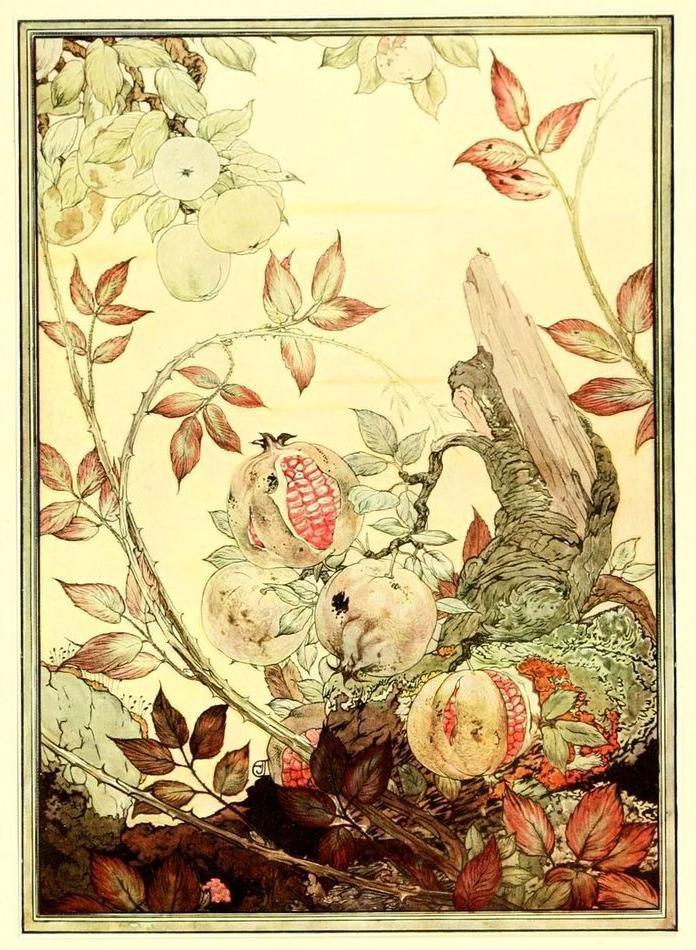 An illustration by Edward Julius Detmold of the fable of "The trees and the bramble" in The Fables of Aesop (1909)